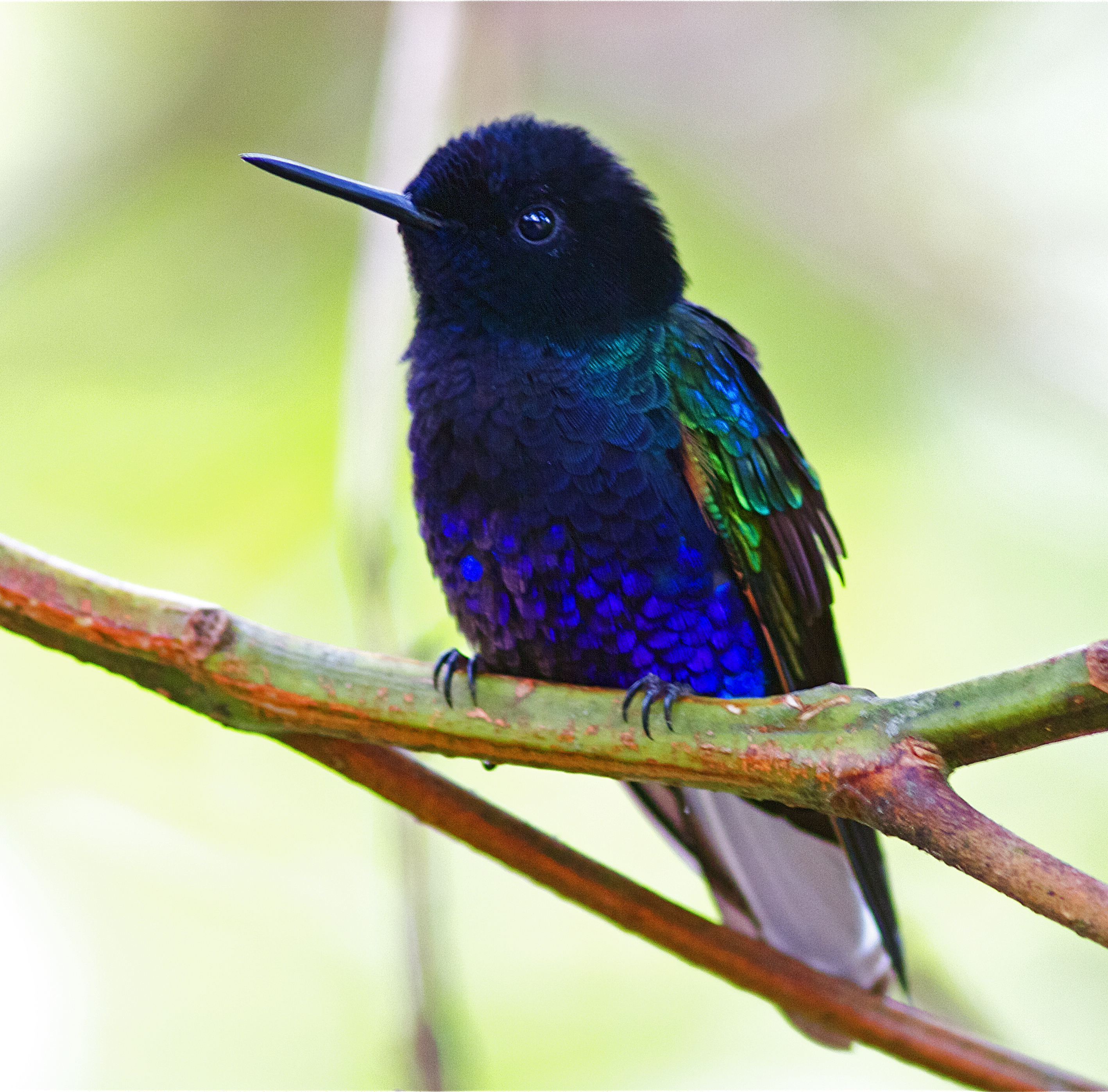 Velvet-purple Coronet photo taken at Mindo Loma Lodge, NW Ecuador.